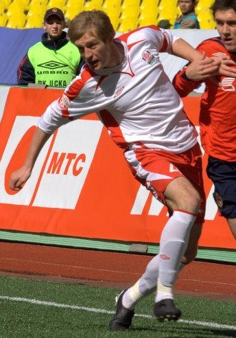 Denis Evsikov in action for FC Spartak Nalchik